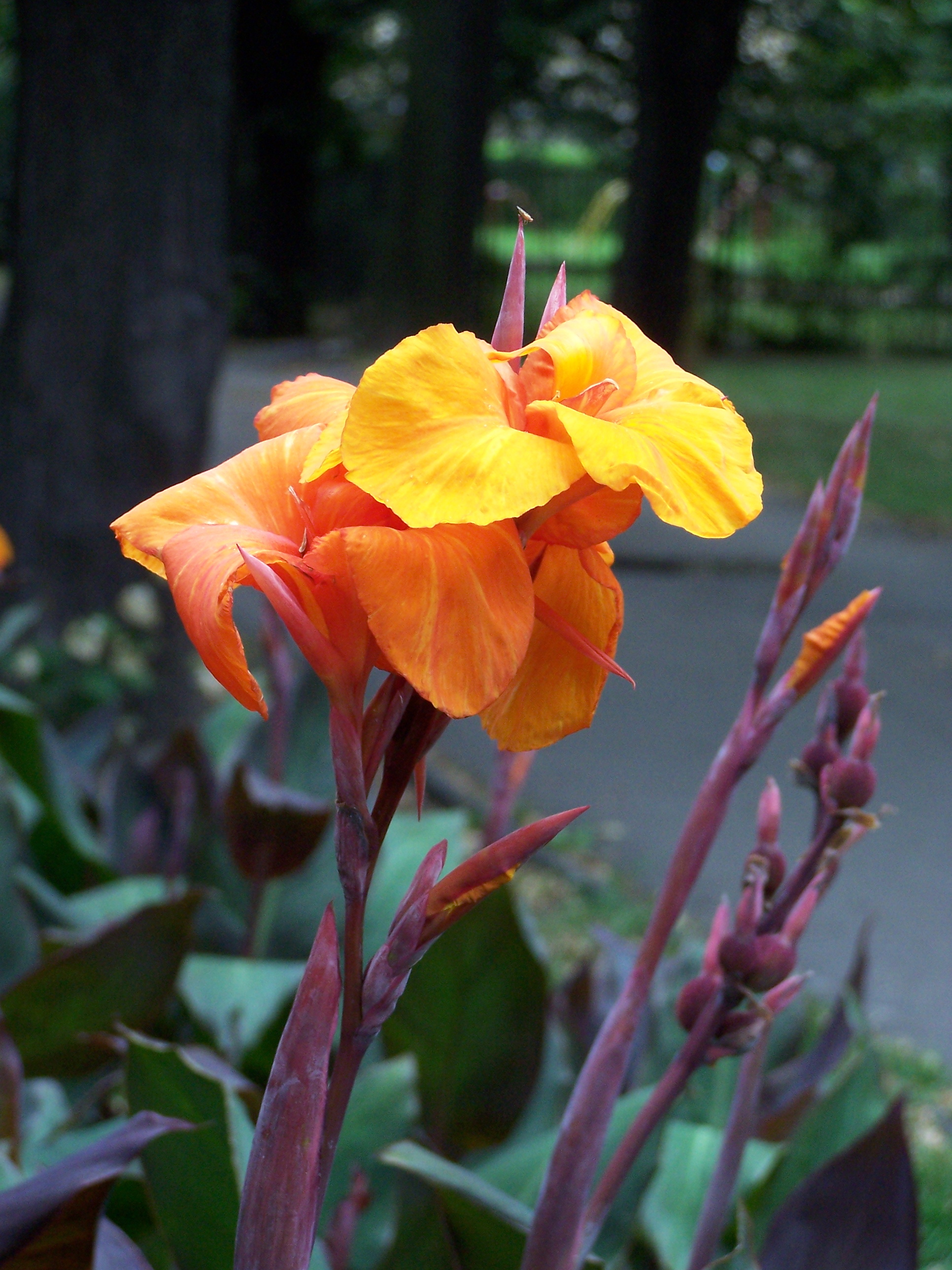 Canna.